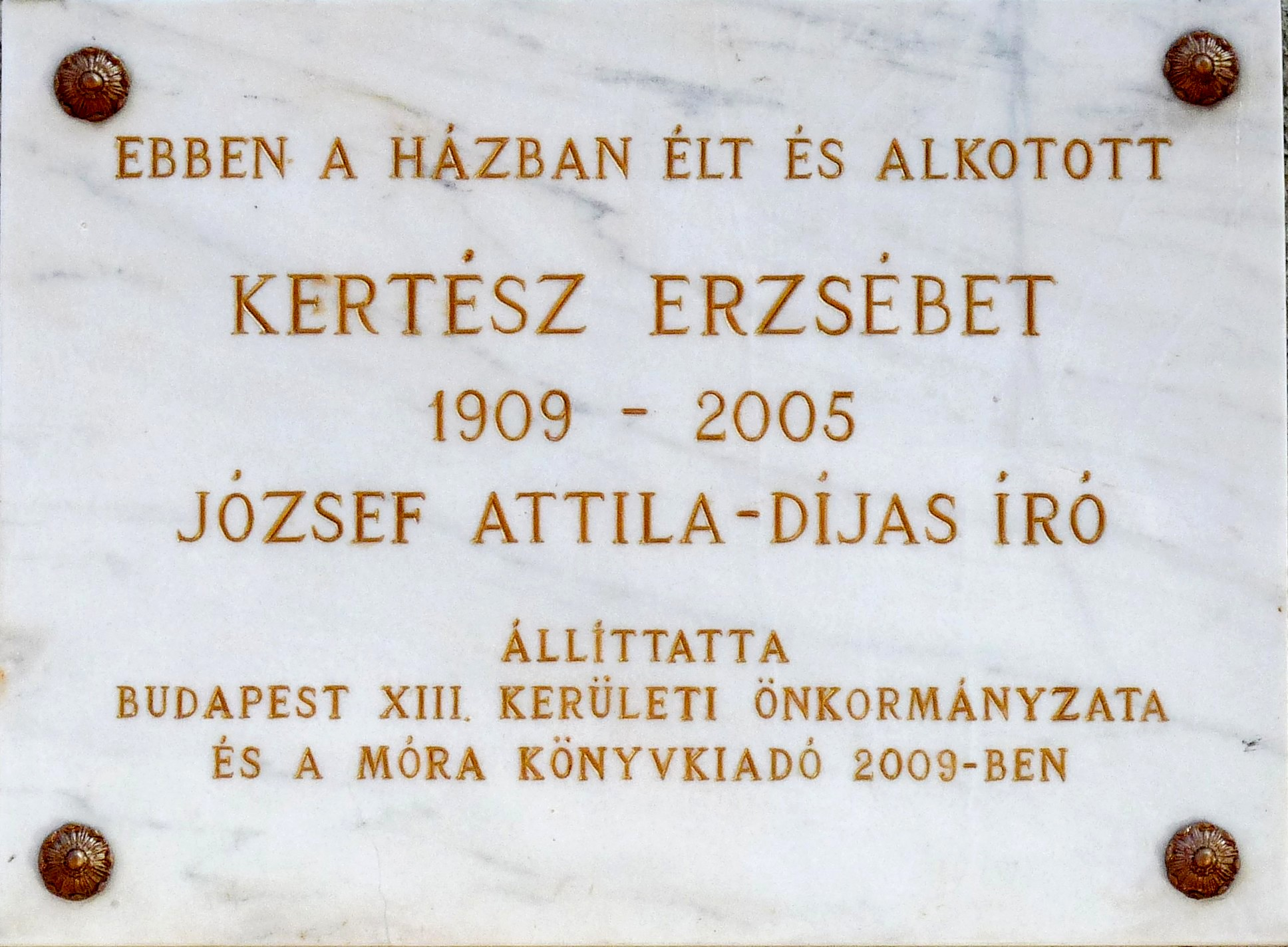 Commemorative plaque to Mrs. Erzsébet Kertész (1909-2005) Hungarian writer, affixed on the wall of his former home in Budapest. (Budapest, District XIII, Újpesti Quay Nr 7).